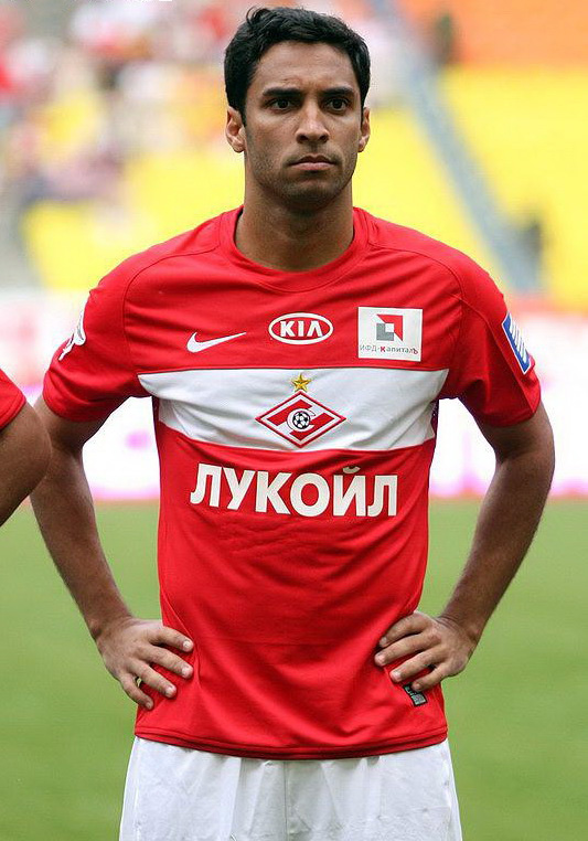 Ibson